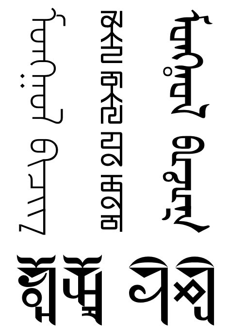 Mongolian scripts in digital use today.